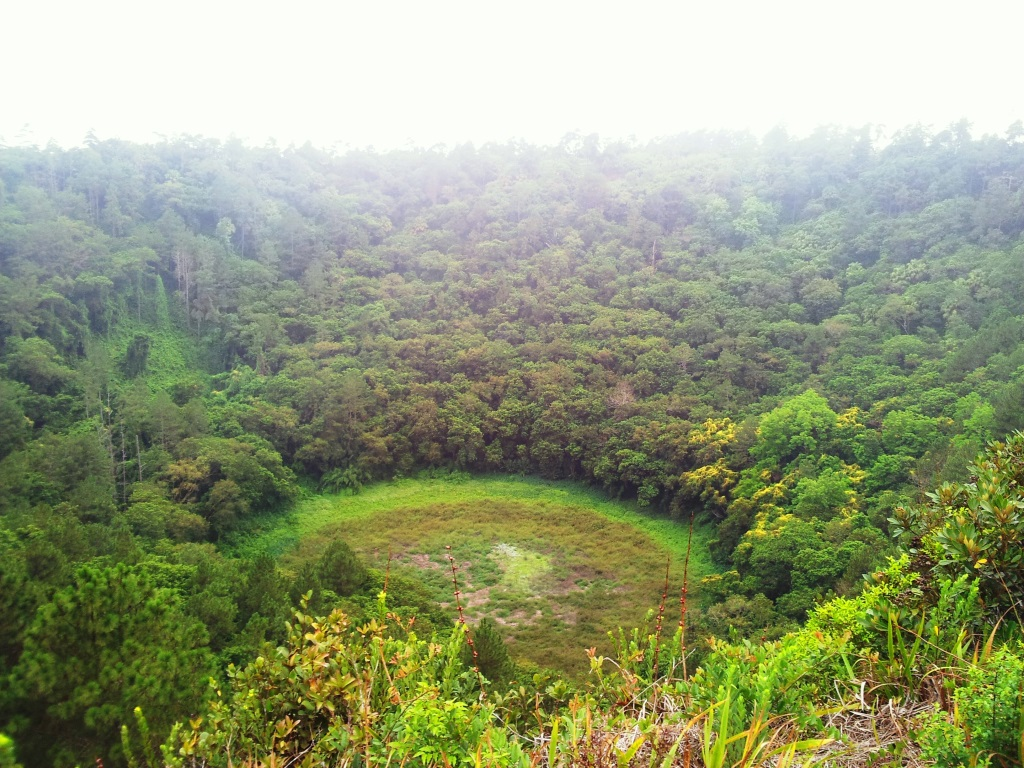 Trou aux Cerfs crater - Curepipe - Mauritius